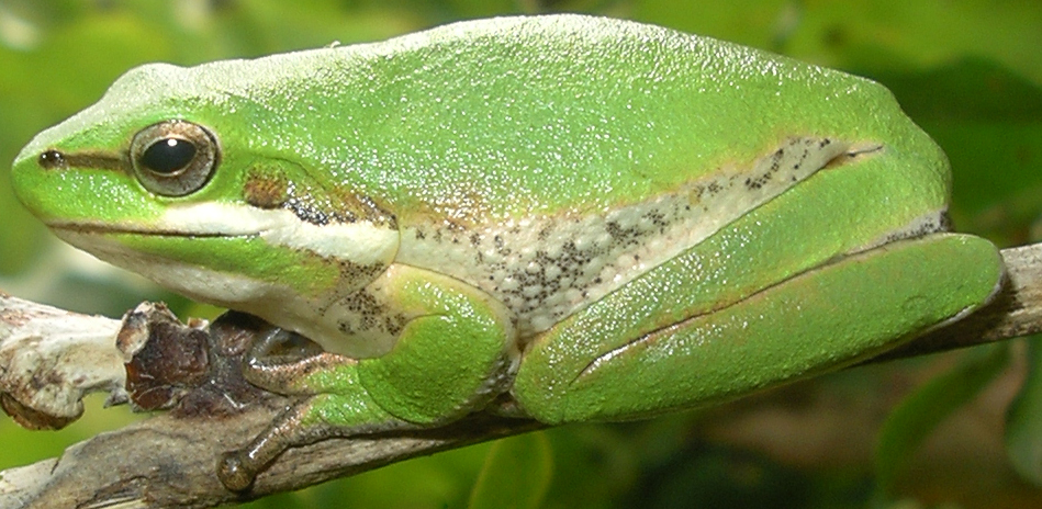 Litoria fallax